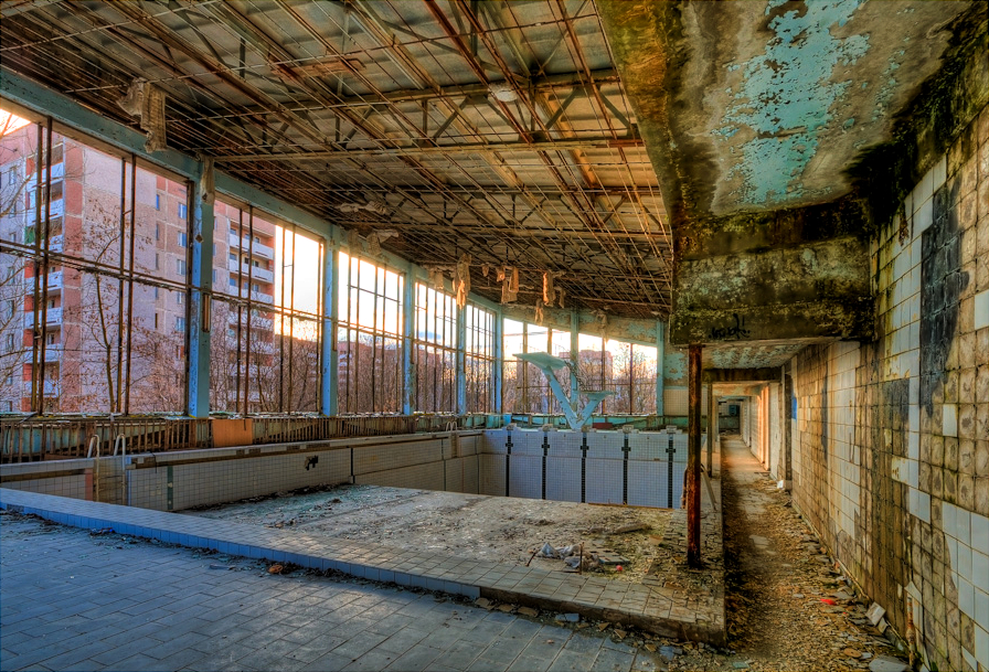 The public swimming pool in the ghost town of Priypat near Chernobyl. Modified by Hiob with Gimp (resized, colored, light)